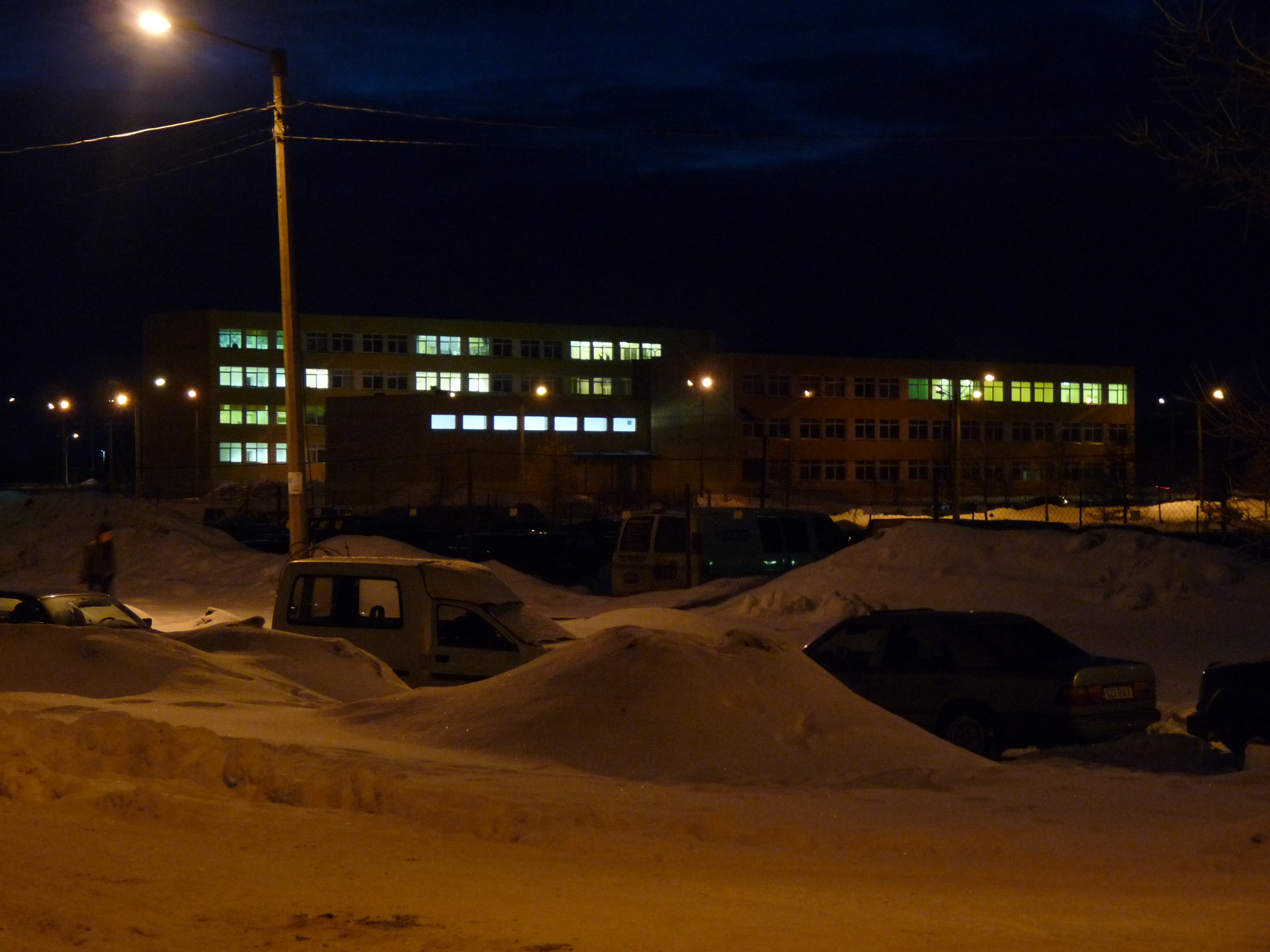 Katleri school seen from Paasiku street